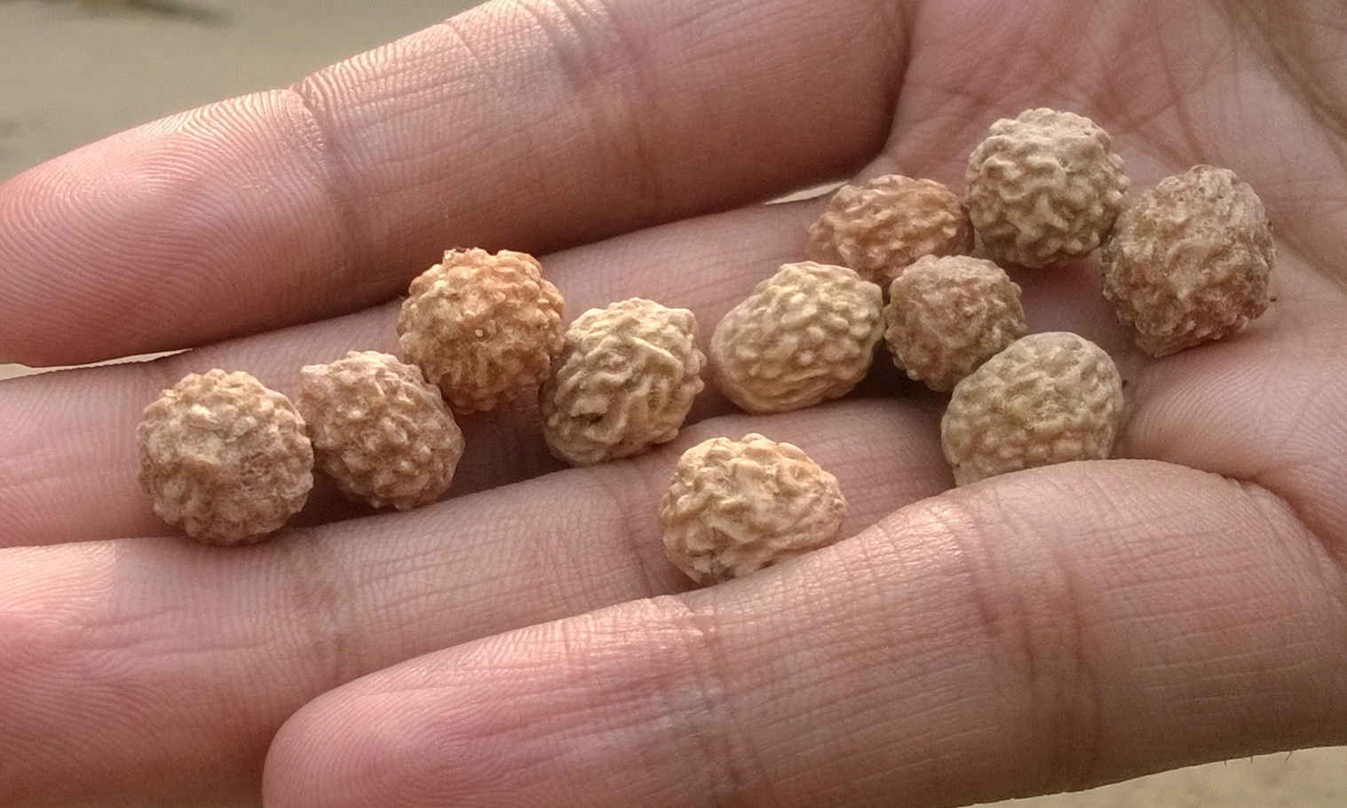 Jujube seed